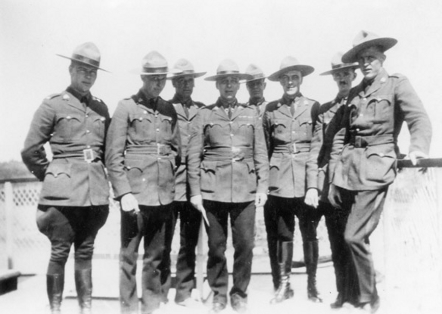 A few of the Royal Canadian Mounted Police involved in hunting Albert Johnson, the "Mad Trapper". Left to Right: Constable A. W. King, was wounded; Mr. Hutchinson; Corporal Hall; unknown; Mr. Melville; Corporal R. S. Wild; Constable E. "Newt" Millen, was killed; unknown.